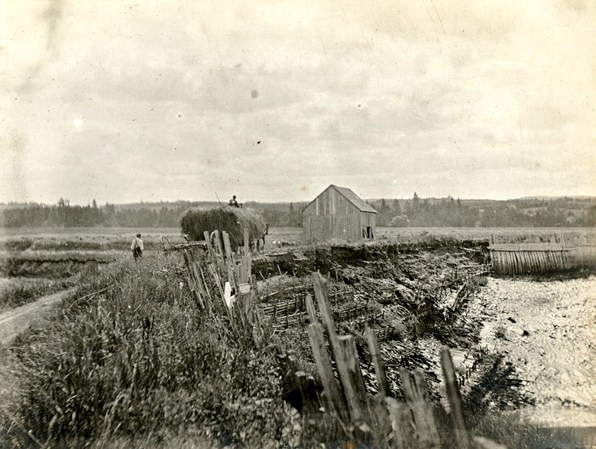 Dykes in grand-Pré, Nova Scotia.